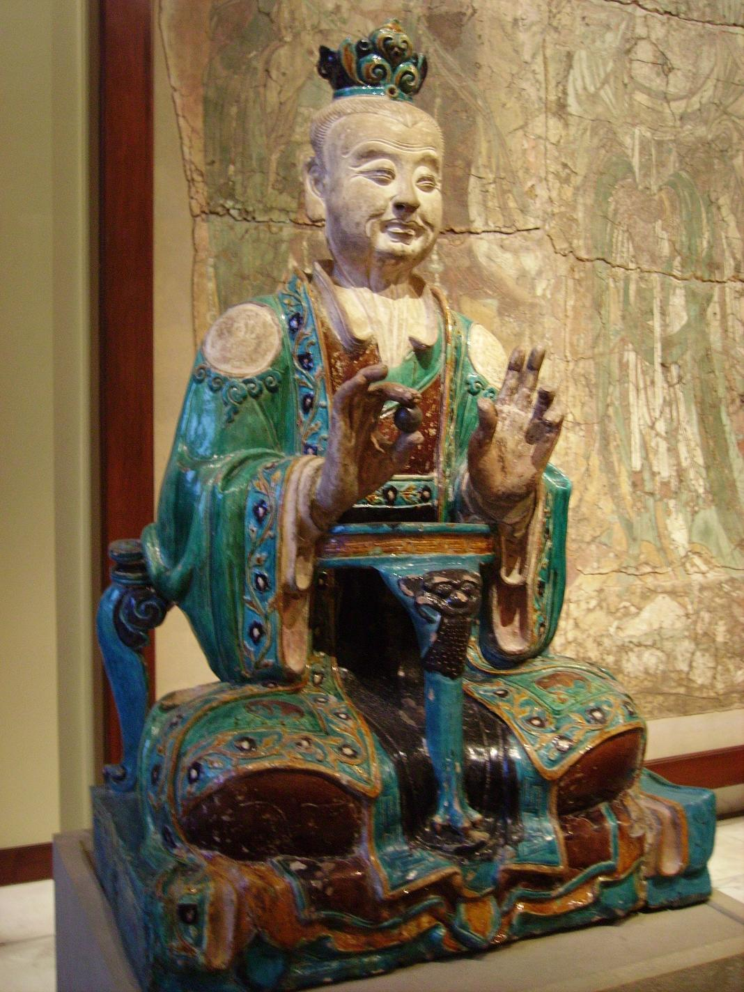 Daoist deity, Ming dynasty. Possibly made in Shanxi.